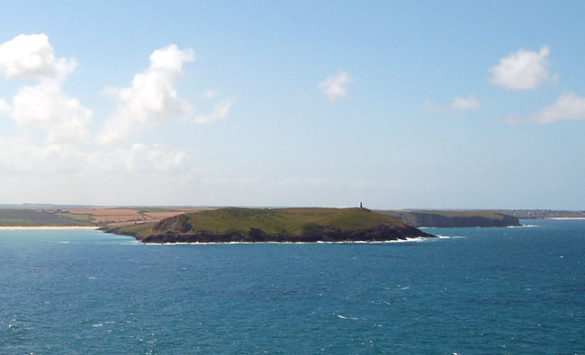 Stepper Point in Cornwall seen from Pentire Head